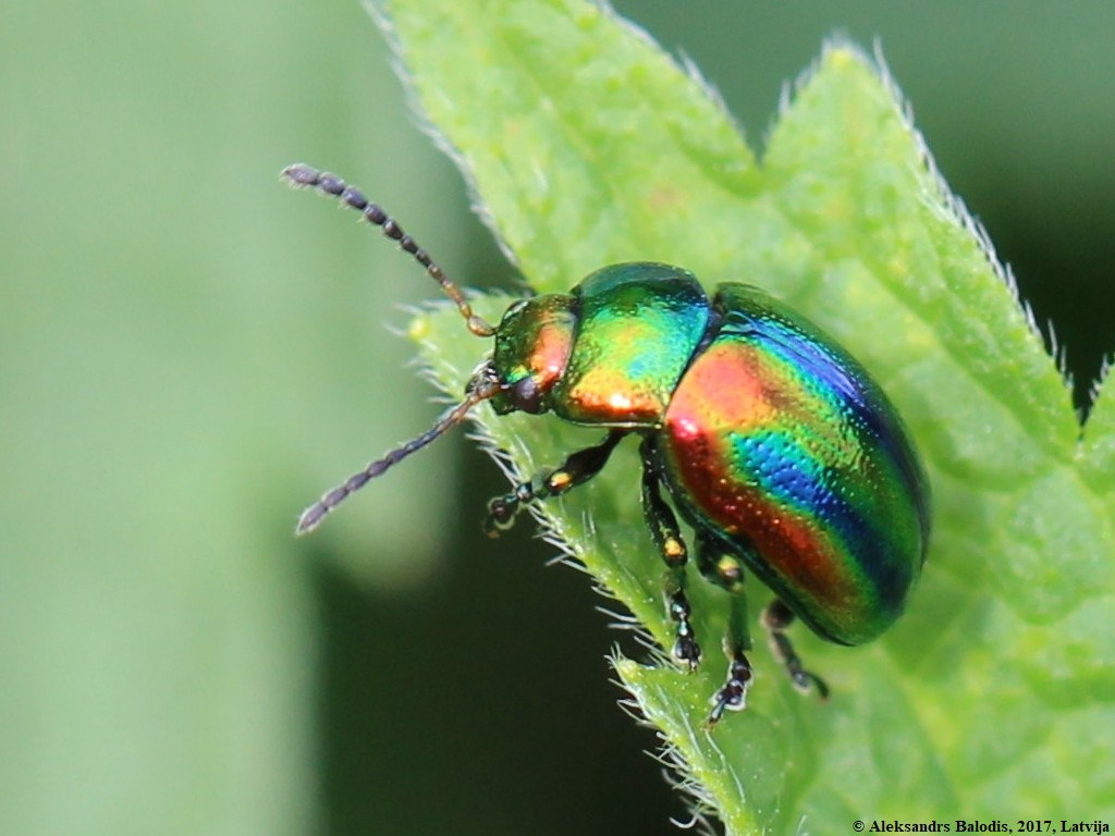 Chrysolina fastuosa